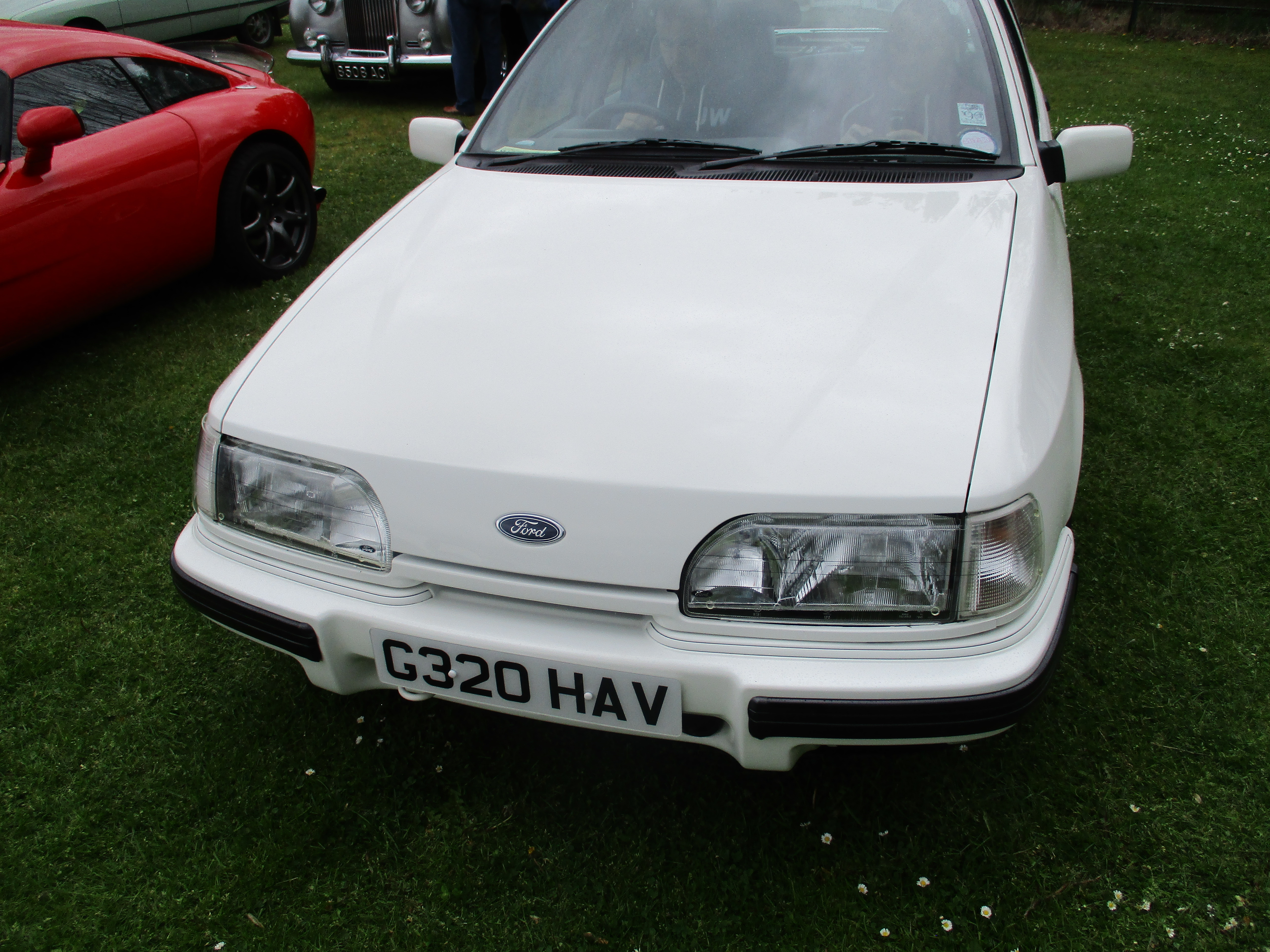 late 1980s Ford sierra XR4x4 at a car event in Alford, Scotland.